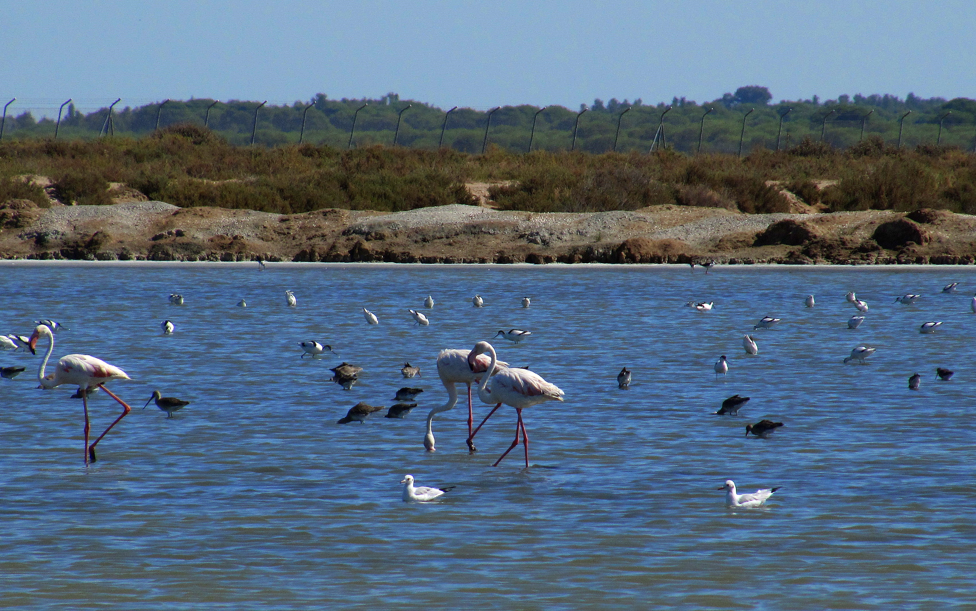 Aves en la marisma, Sanlúcar de Barrameda